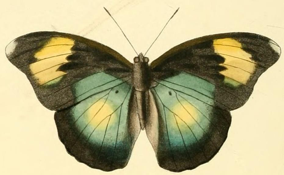 Plate: Romalæosoma III Romalæosoma cutteri. Figs. 13, 14, 15. Accepted as Bebearia cutteri (Hewitson, 1865).